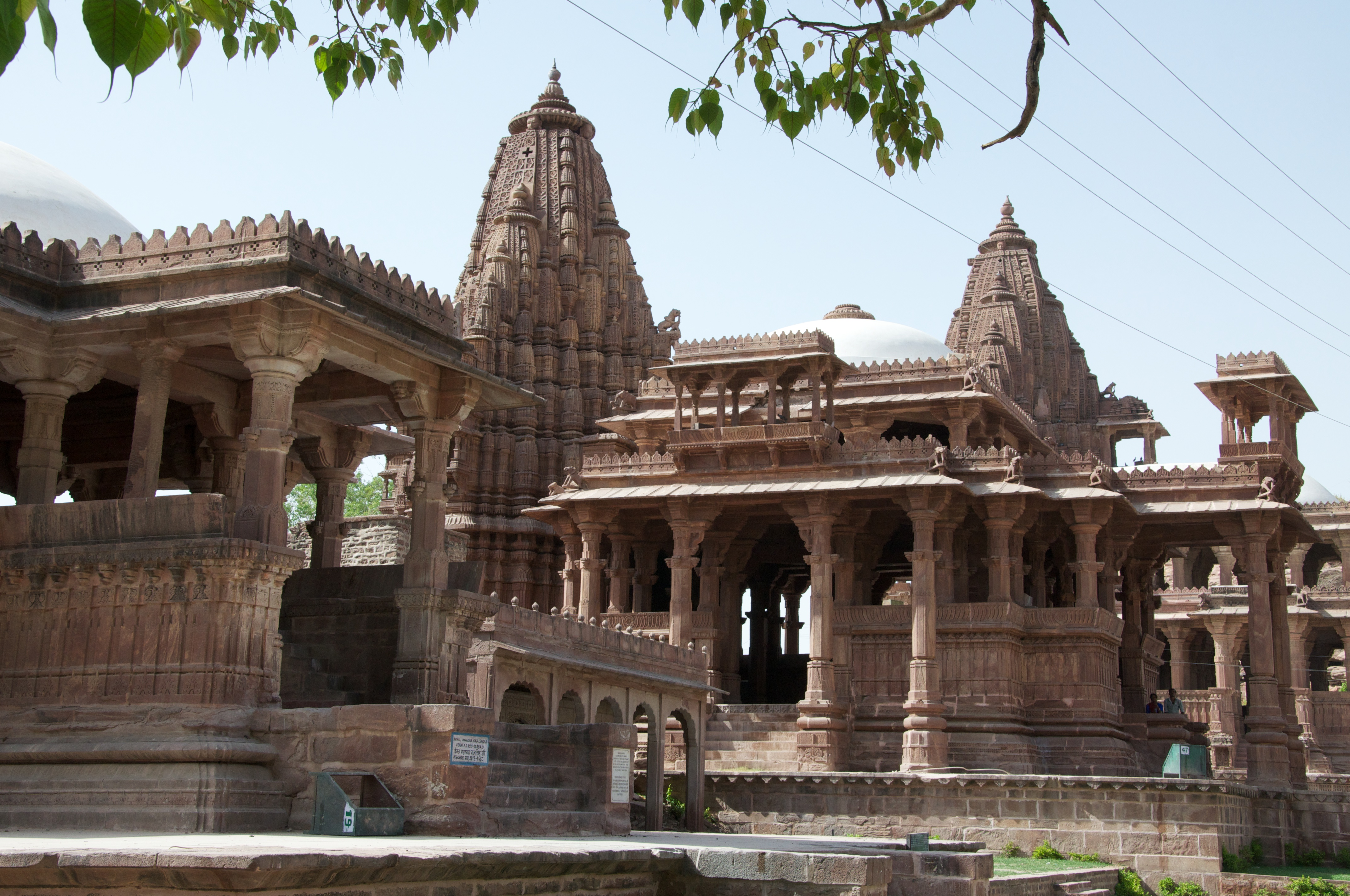 Temples at Mandor